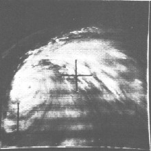 Super Typhoon Opa(e)l on August 4, 1962 0810 UTC.